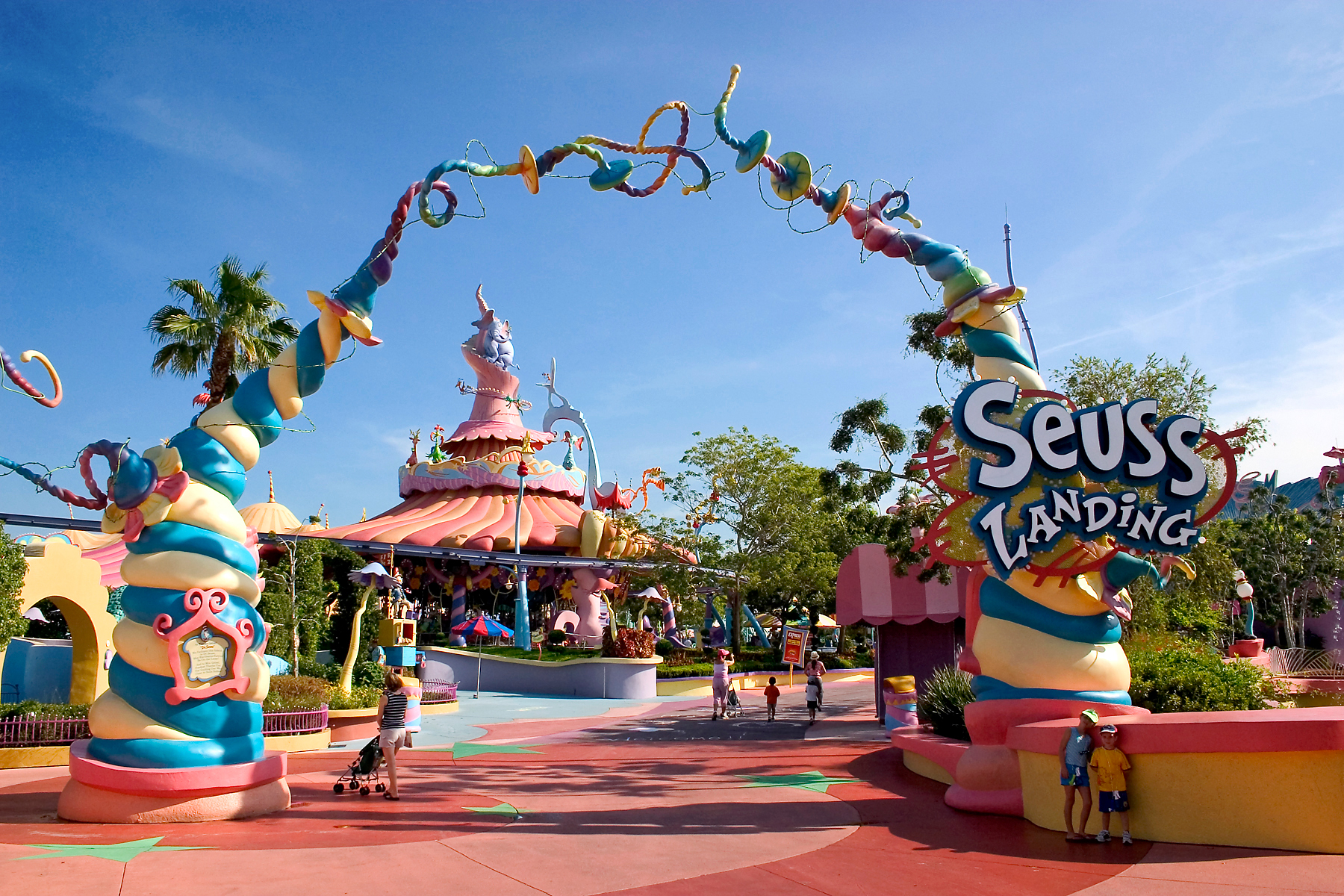 Suess Landing at Universal Studios' Islands of Adventure theme park, Orlando, Florida